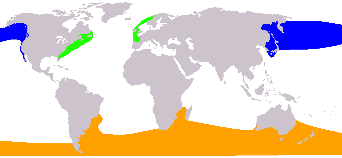 Range map of Eubalena species. Based on these image sources: Blue: Eubalaena japonica Pacific Northern Right Whale Green: Eubalaena glacialis Atlantic Northern Right Whale Orange: Eubalaena australis Southern Right Whale